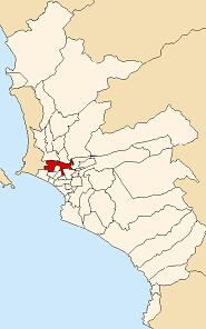 Map of Lima highlighting the district of Lima Created by Tuomas Carrasco - Mar. 2005